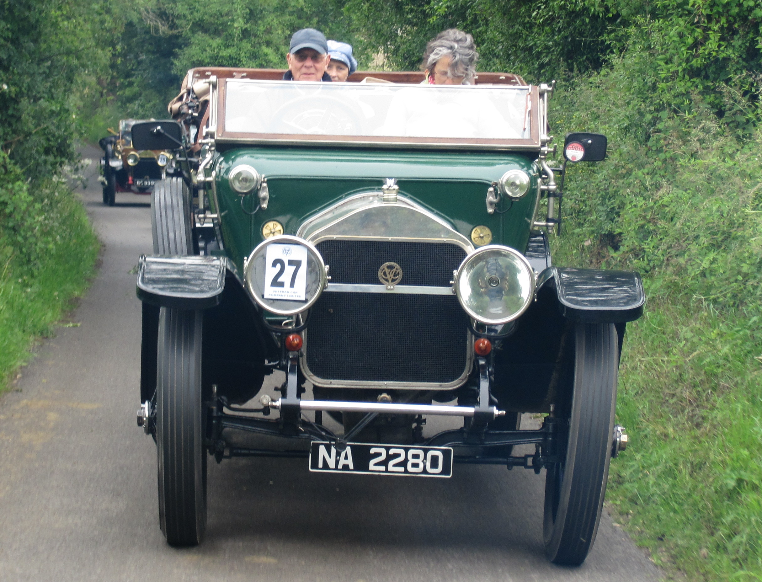 1912 Wolseley 24-30hp Colonial (DVLA) Veteran Car Club of Great Britain Cotswold Caper